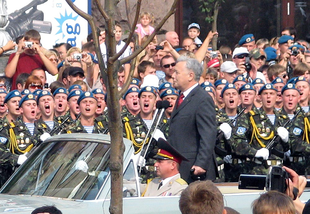 The Ukrainian Minister of Defense Yuriy Yekhanurov inspecting troops of the 95th Airmobile Brigade on Khreshchatyk in Kyiv on the Independence day 2008.